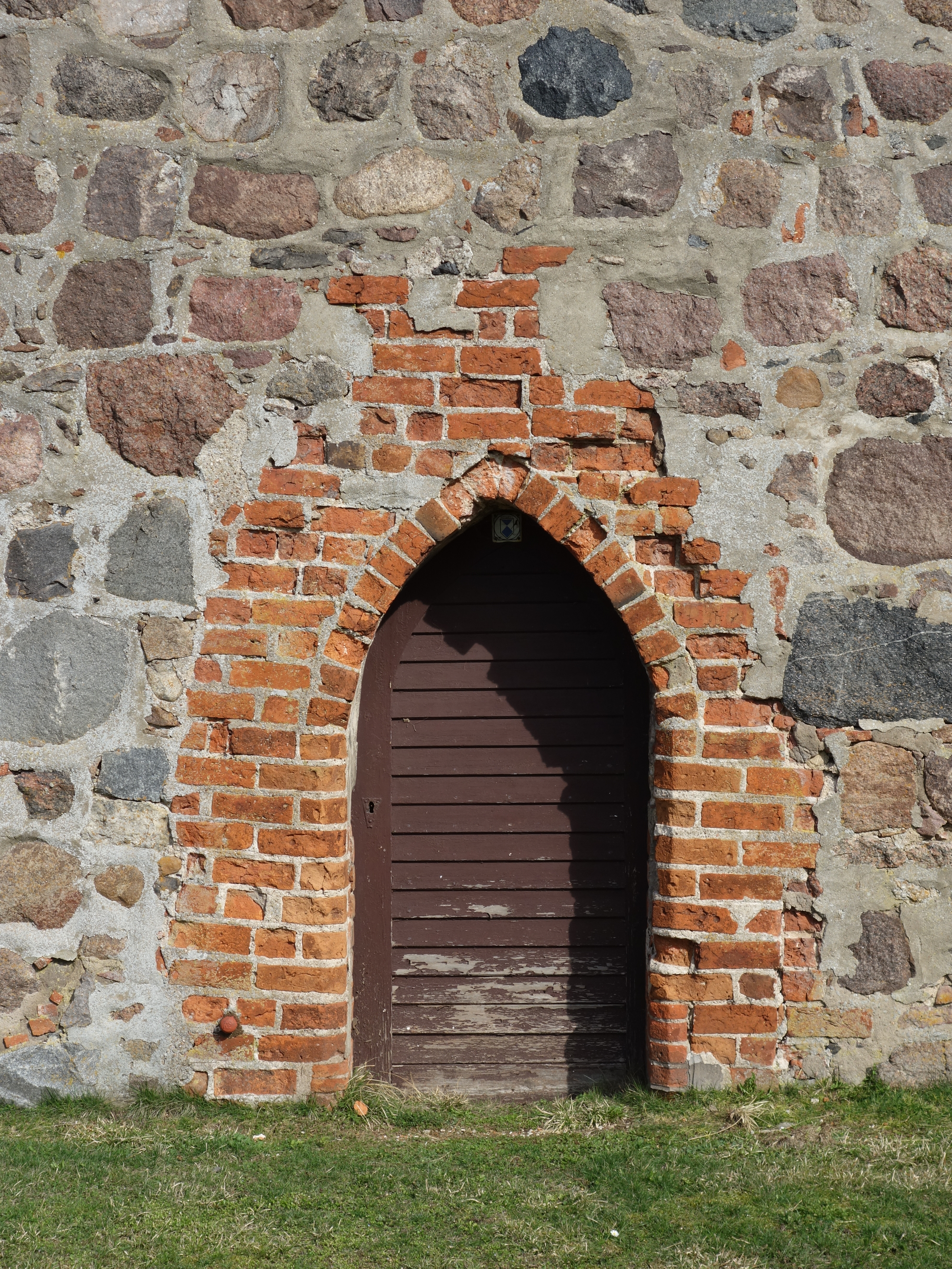 Western portal of church in Bendelin, Plattenburg municipality, Prignitz district, Brandenburg state, Germany